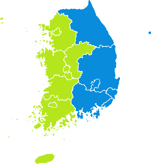 South Korea